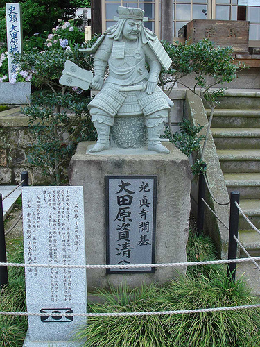 Statue of Ōtawara Sukekiyo (lord of Ōtawara castle), at Kōshin-ji Temple, Ōtawara, Tochigi, Japan.